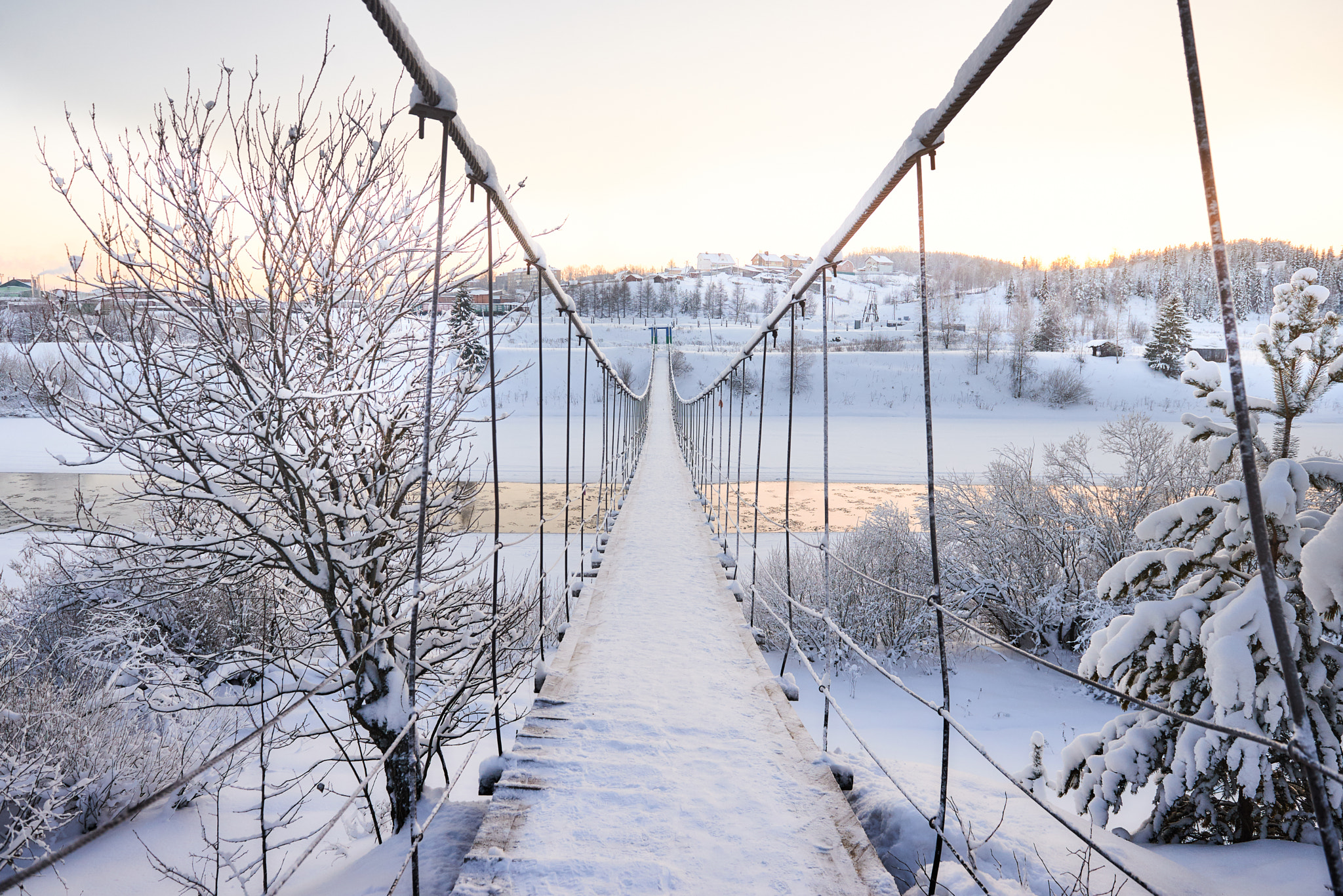 500px provided description: Republic of Komi, Russia [#russia ,#winter ,#bridge ,#snow ,#Komi ,#Republic of Komi]